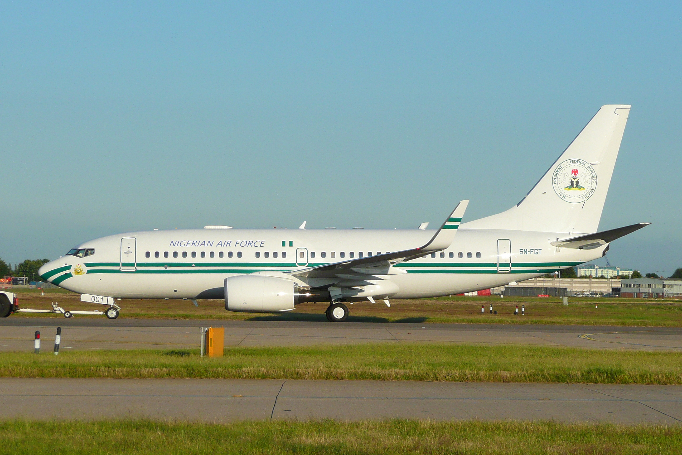 5N-FGT B737NG BBJ Nigerian Air Force being towed to std701 from RS1